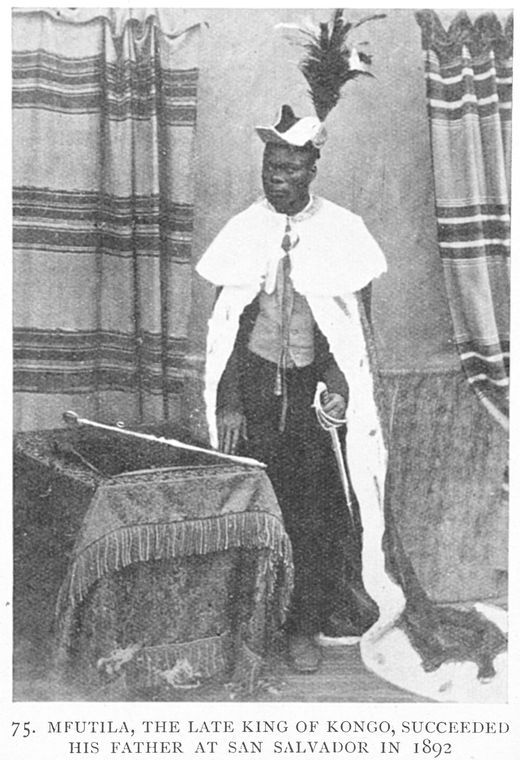 Mfutila, the late King of Kongo, succeeded his father at San Salvador in 1892.